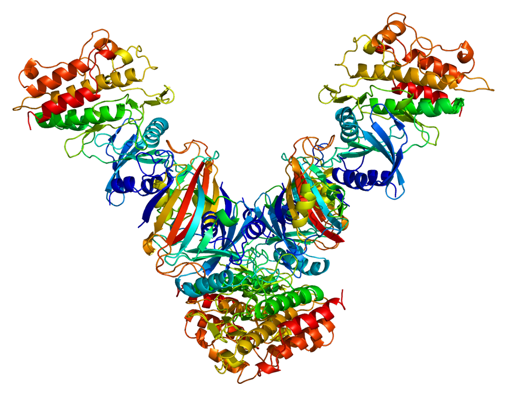 Structure of the TGFBR1 protein. Based on PyMOL rendering of PDB 1b6c.